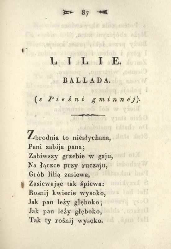 Poems by Adam Mickiewicz. V. 1. - Vilnius; printed by Józef Zawadzki, 1822; Adam Mickiewicz (1798-1855)